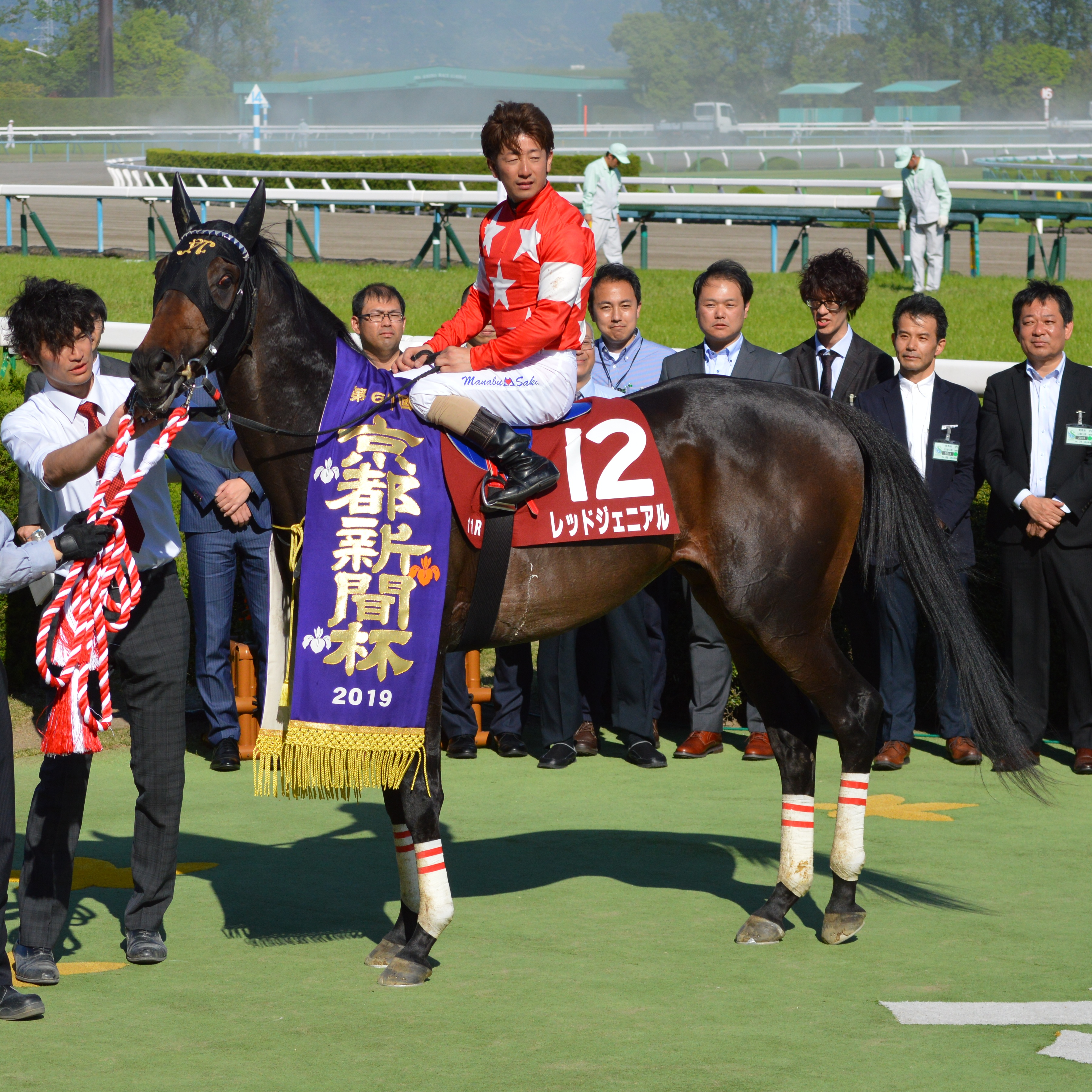 Japanese race horse Red Genial at Kyoto racecourse. Kyoto (JPN) 4 May 2019Kyoto Shimbun Hai (Grade 2) (Turf) (3yo) 1m3f Firm RankHorse NameOddsAgeWgtJockeyTrainer1stRed Genial (JPN)336/10C38-11Manabu SakaiYoshitada Takahashi2ndRoger Barows (JPN)42/10C38-11Suguru HamanakaKatsuhiko SumiiOthers are omitted. (14 horses entered in a race.)